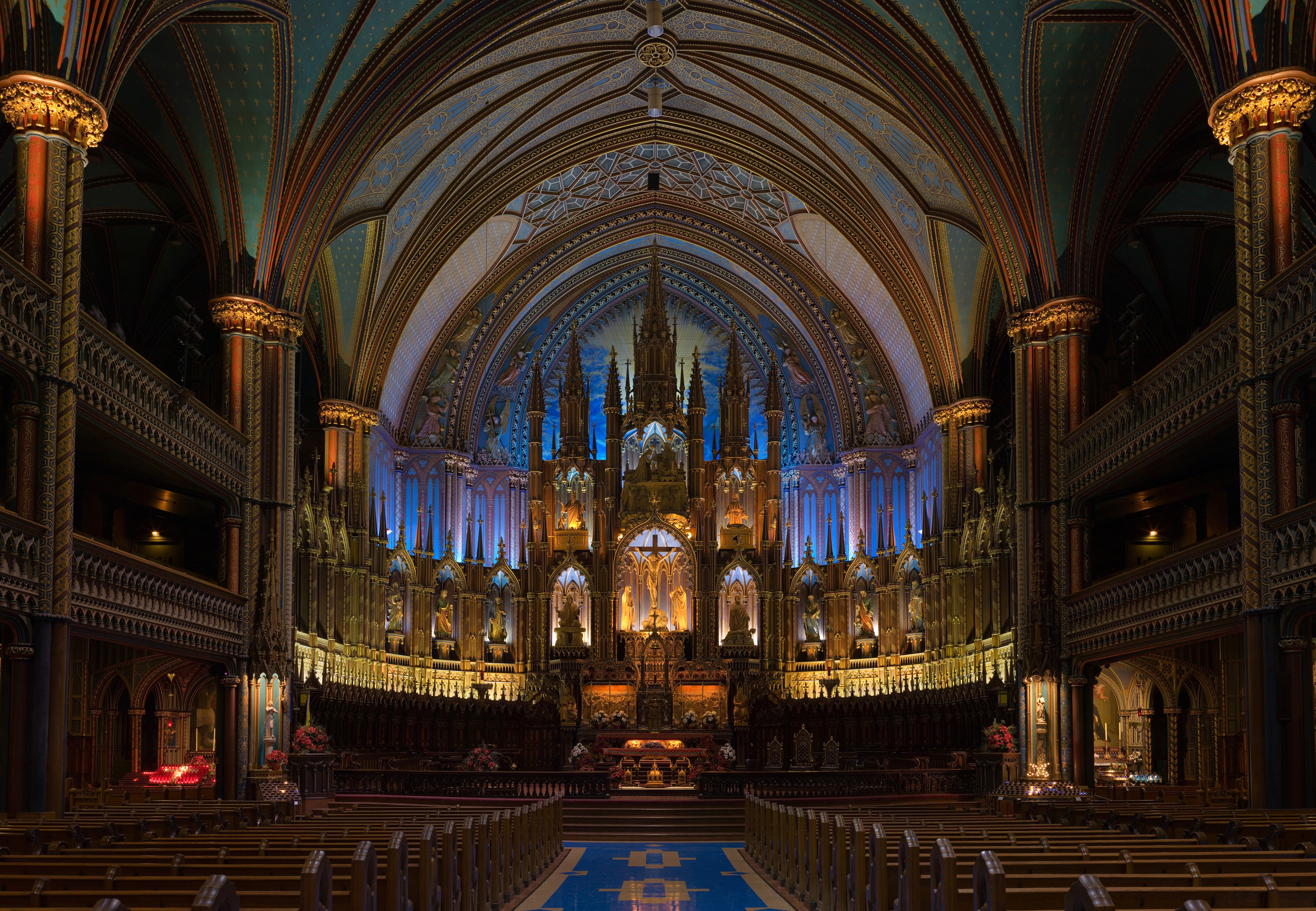 The interior of Notre-Dame Basilica in Montreal, Quebec, Canada.